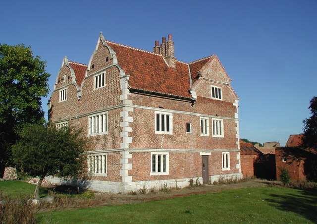 Old Hall, Knedlington, East Riding of Yorkshire, England.The house was recorded in 19th century topographical dictionaries as the property of 'Sir John Gate, a distinguished knight in the reign of Henry VIII' but this is probably incorrect. It seems more likely this Elizabethan style manor house was the home of John GATES (1540-1607), a Justice of the Peace for Howdenshire who was active in the arrest and subsequent execution of people suspected of practising the Catholic faith during the reign of Queen Elizabeth I.